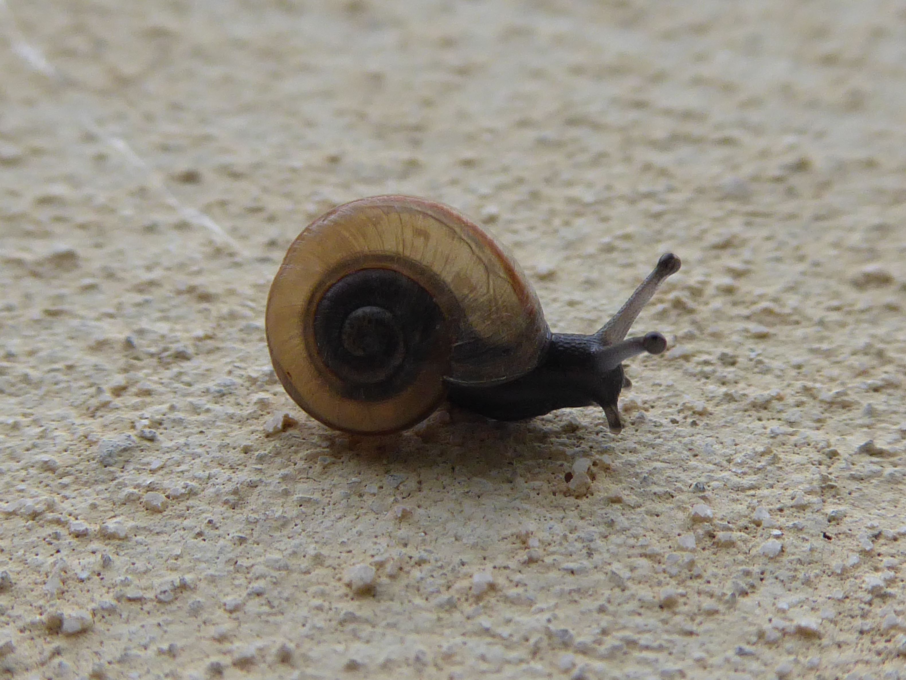 Juvenile Chilostoma cingulatum photographed on the walls of Saint Valentine church in Vallelaghi (Trentino, Italy)